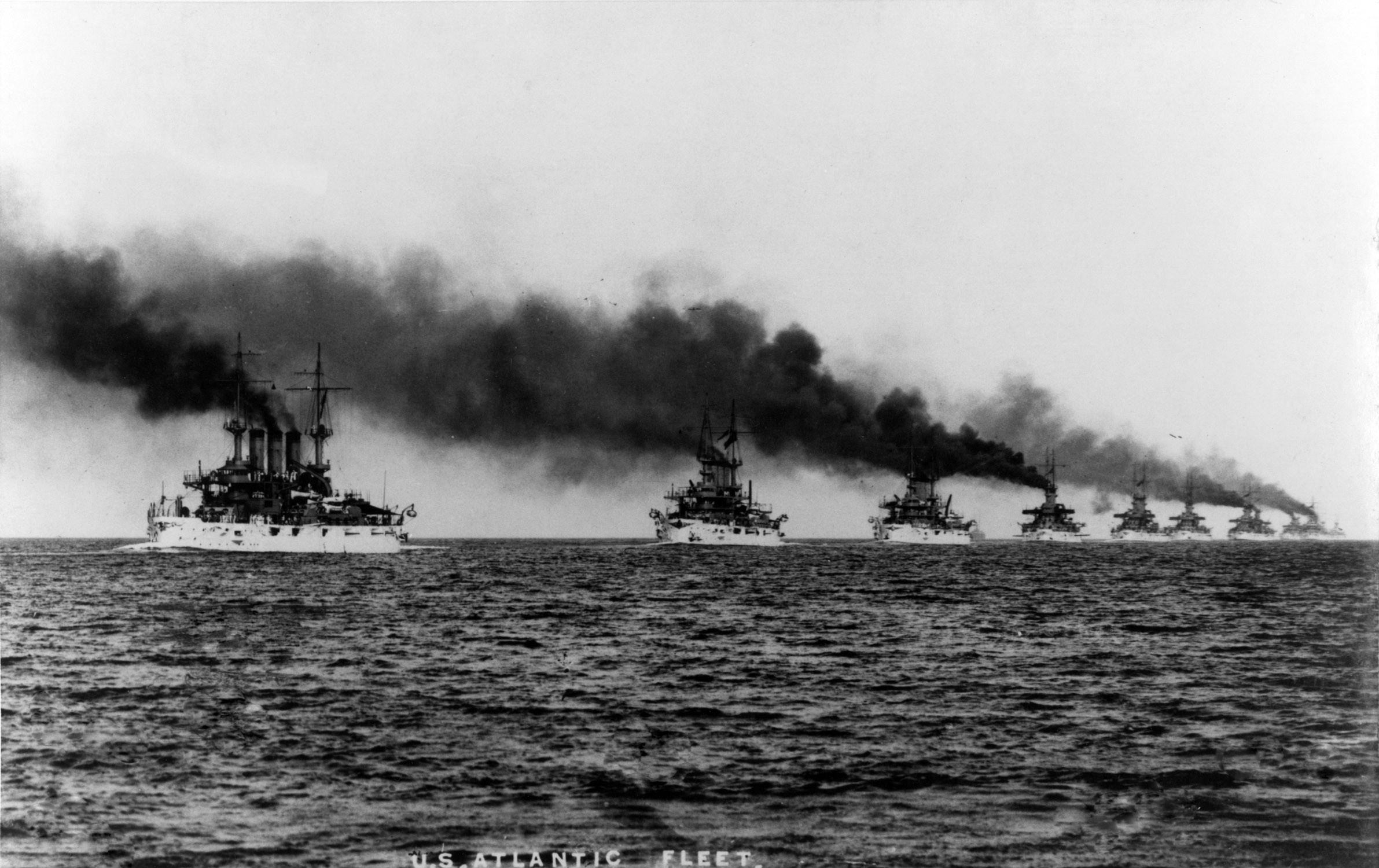 Naval historical file photo of the Great White Fleet. In 1907, Theodore Roosevelt, 26th president of the United States, sent a portion of the Atlantic fleet on a world tour to test naval readiness, establish global presence and generate international goodwill. U.S. Navy photo (Released)